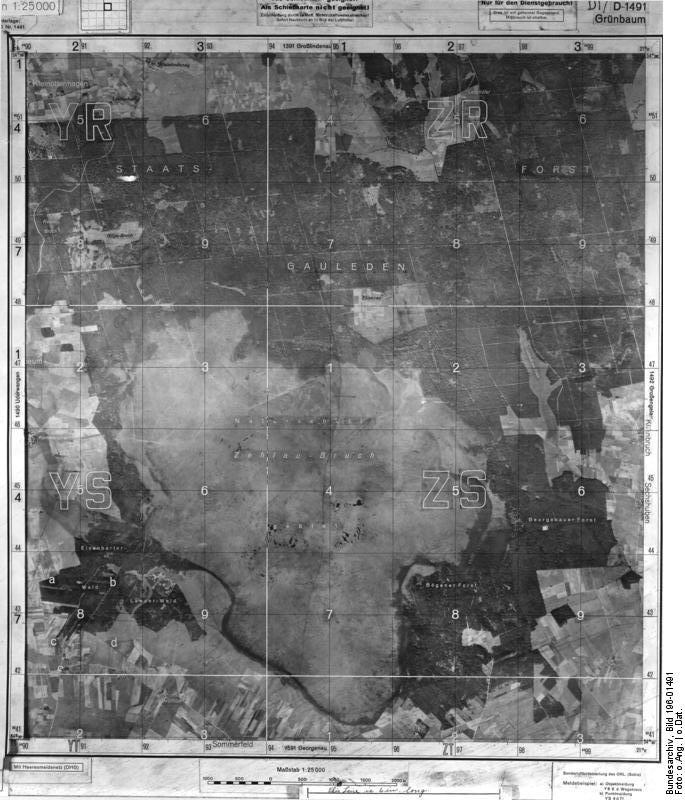 Grünbaum Information added by Wikimedia users.